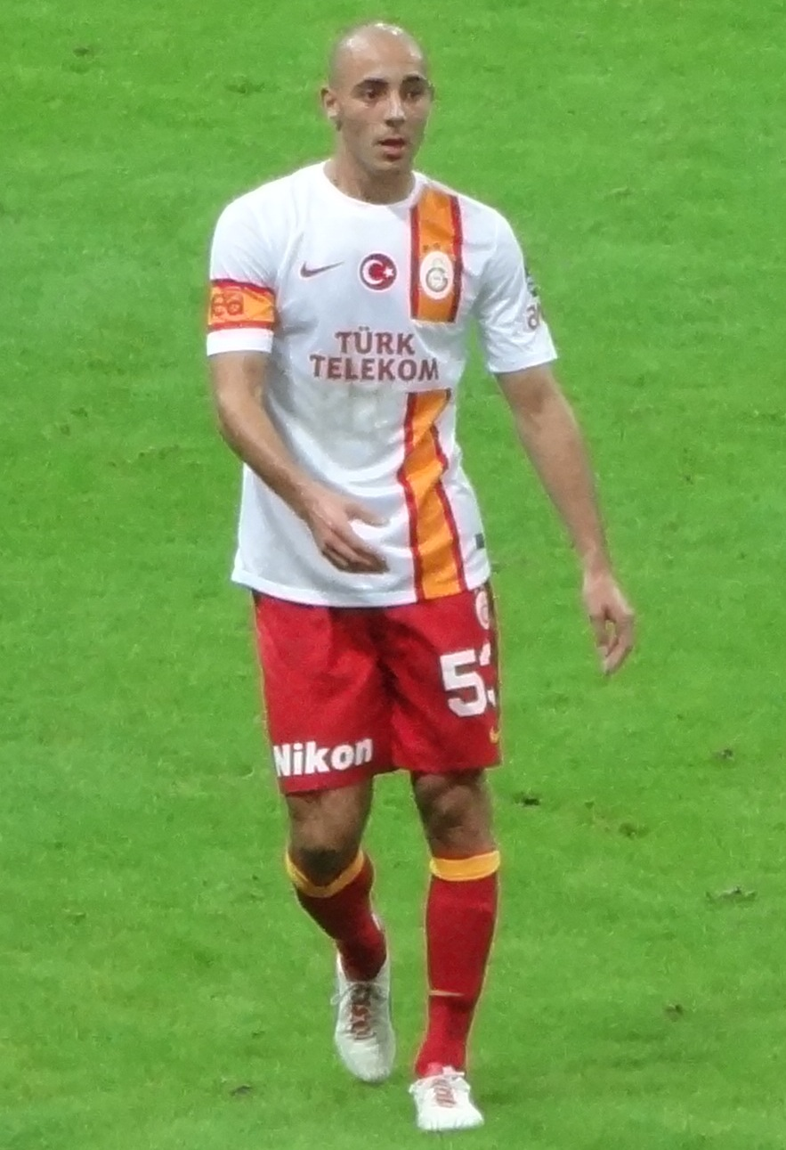 Amrabat @ ES -ES match